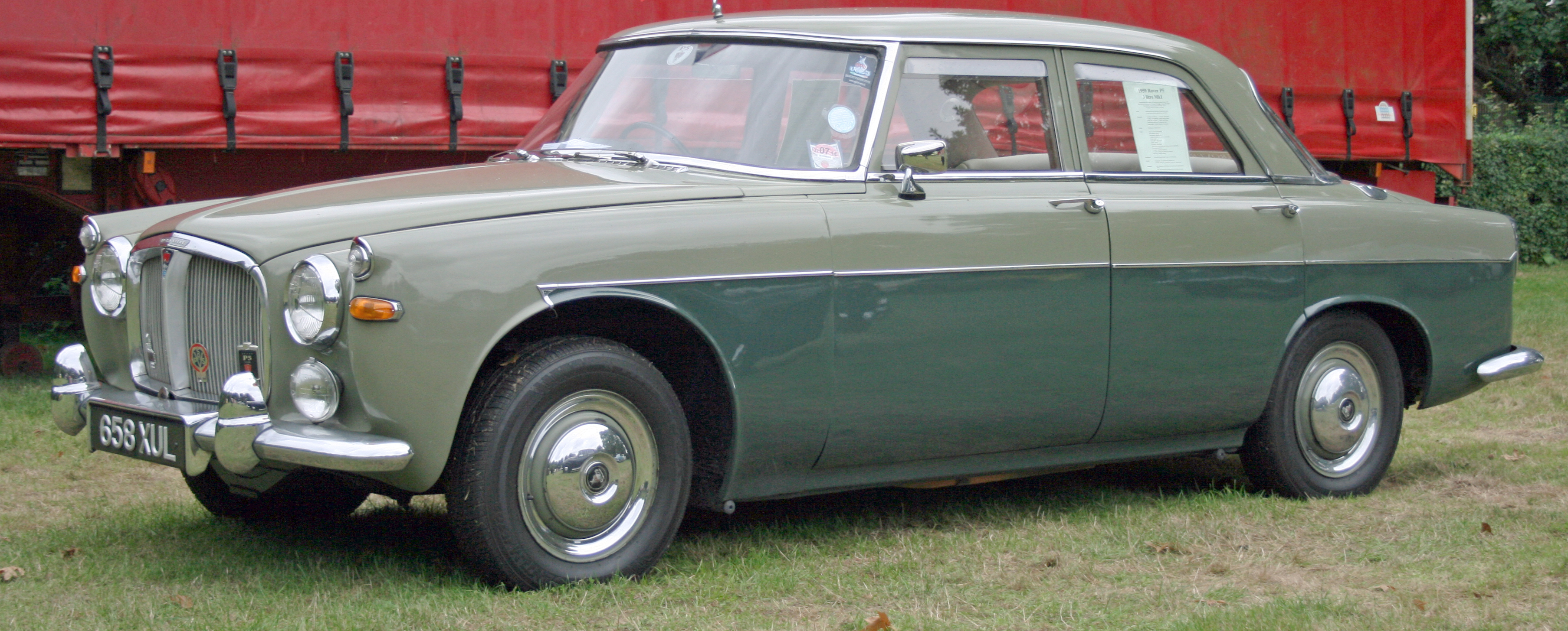 1959 Rover 3-Litre saloon (DVLA) manufactured 1959 2995 cc